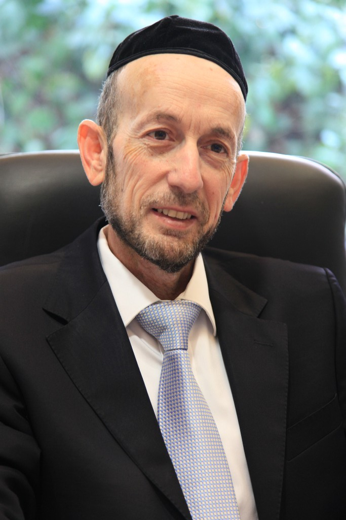 Rabbi Yisrael Meir Uri Maklev (Hebrew: ישראל מאיר אורי מקלב, born 10 January 1957) is an Israeli politician and member of the Knesset for the Haredi party Degel HaTorah, which together with Agudat Yisrael forms the United Torah Judaism list.